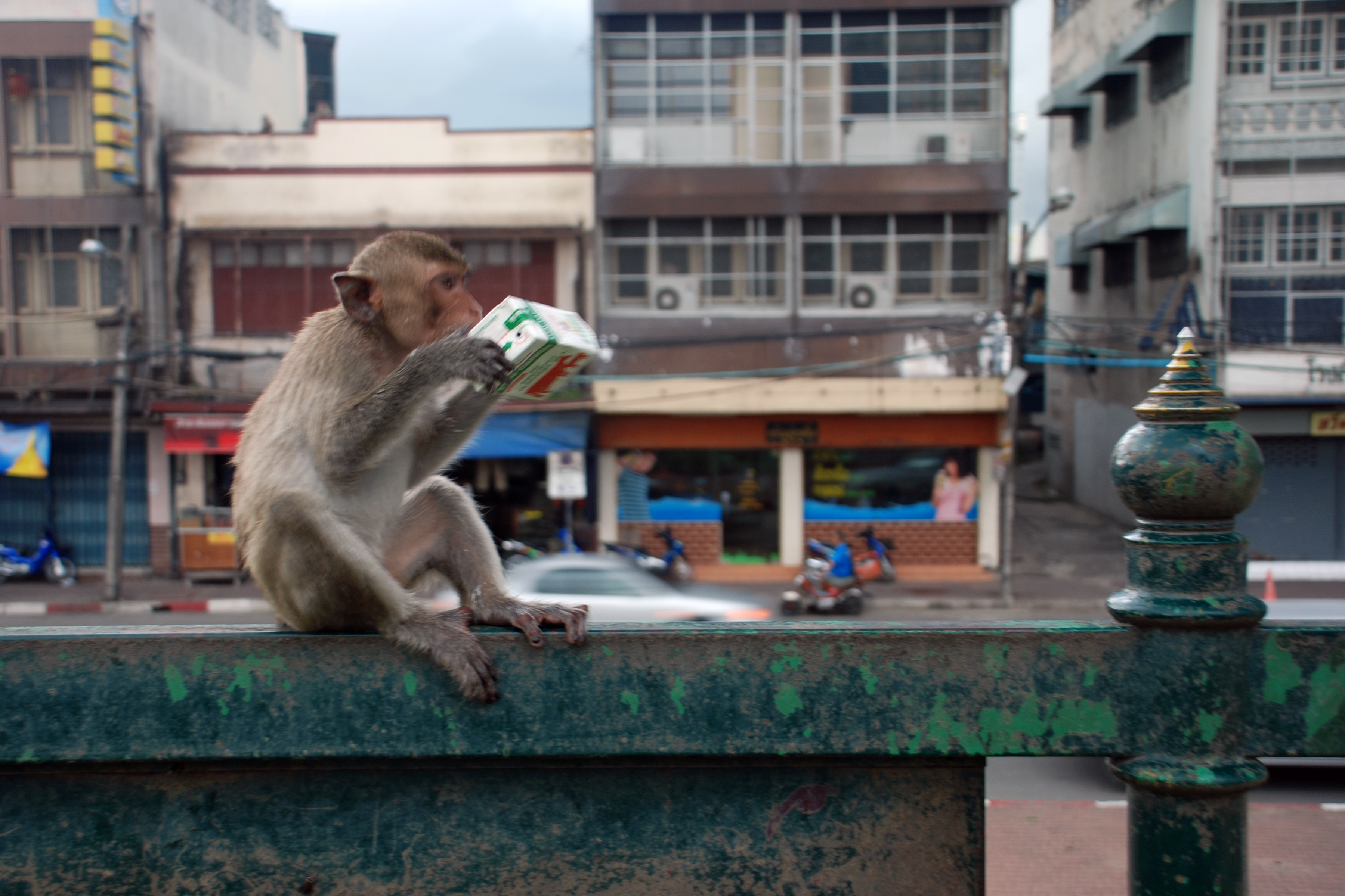 Crab-eating macaque (Macaca fascicularis) playing with a juice carton on a fence in Lopburi, Thailand